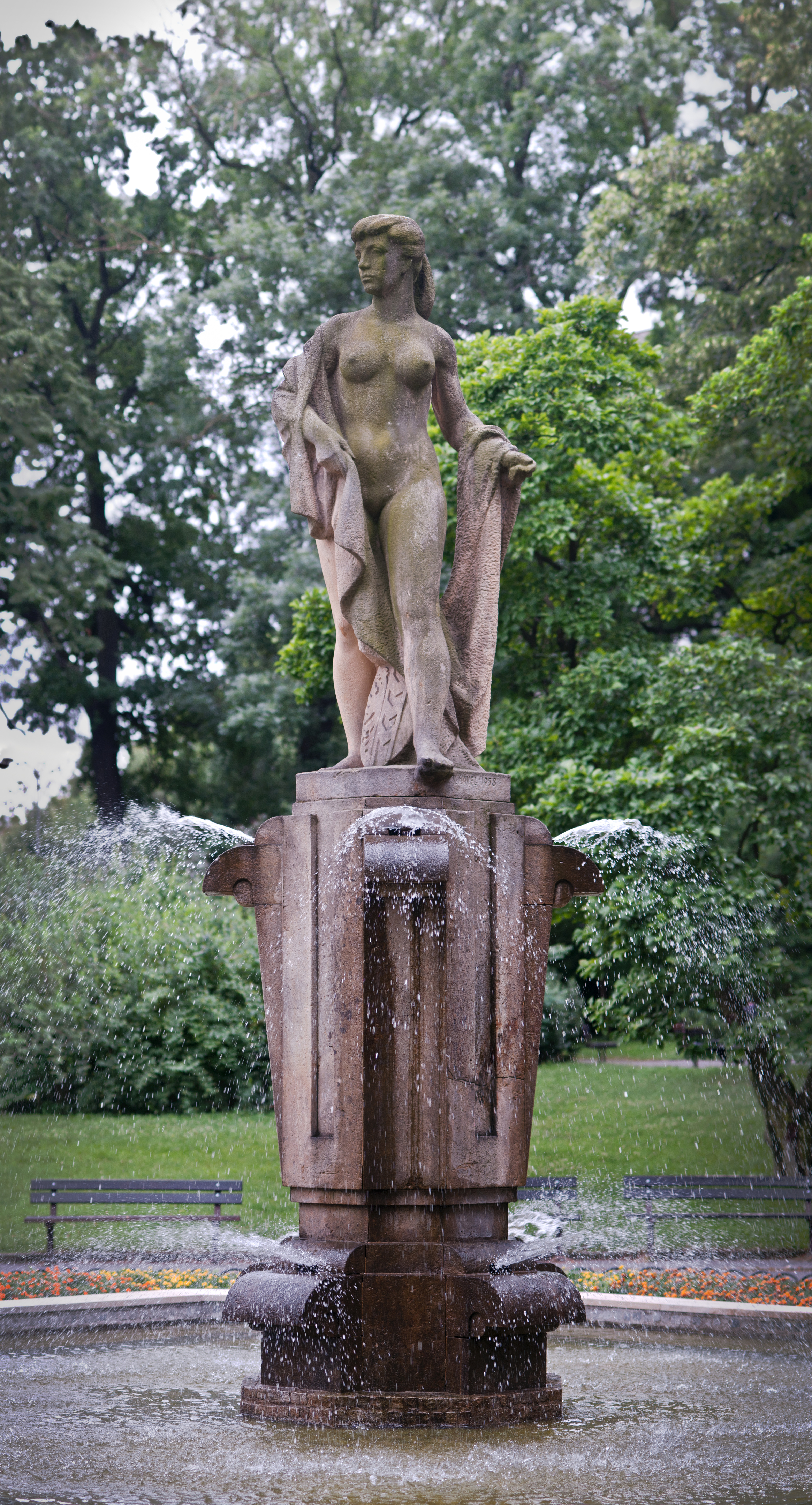 Statue "Znovuzrozená Opava" by Vincenc Havel